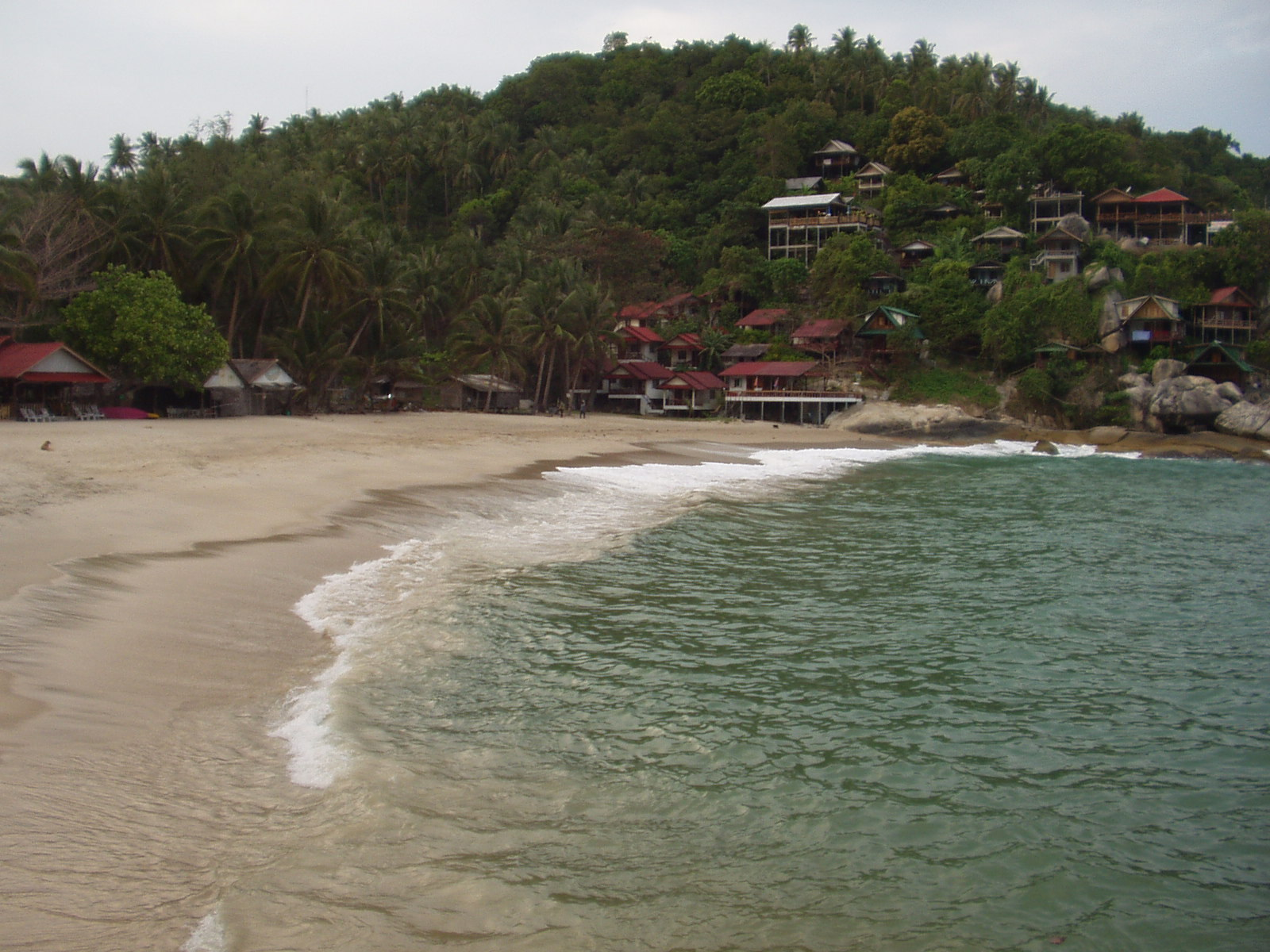 Than Sadet Beach on Koh Phangan Island ,Thailand